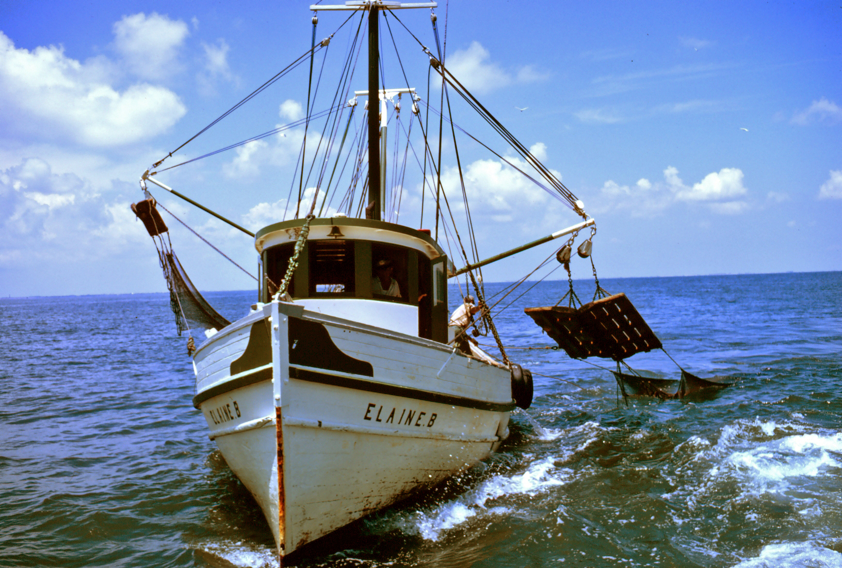 Trawler hauling nets (double rigging).